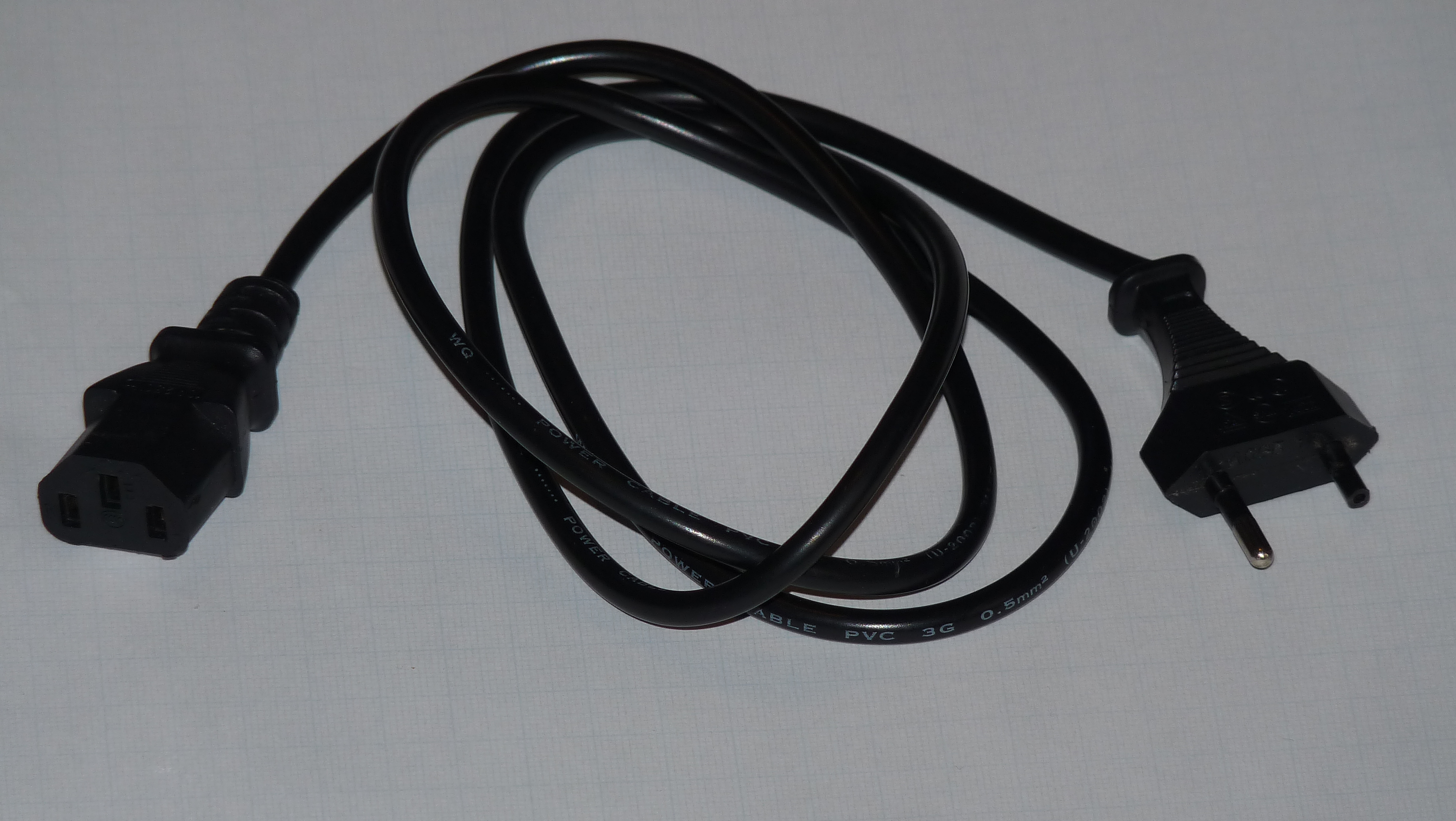 Danger cable for PC: 1) connector allows to use with 10A devices, but maximum current of plug is 2.5A 2) cable is labeled as "3G 0.5mm²", but actually two copper wires with gauge ~0.2mm² are dressed in insulation for 0.5mm² wires 3) plug is labeled as "3A", but it's real maximum current is 2.5A 4) minimum wire gauge allowed in Europe is 0.75mm², but gauge of wires in this cable is much thinner than minimal allowed 5) connector envisages to use this cable with 1-class devices, but plug and cable have no ground